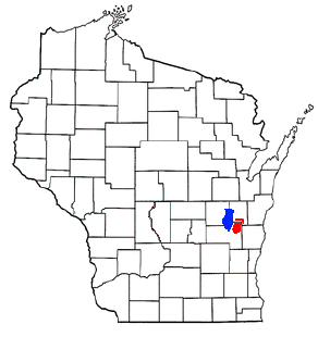 The red area shows the location of The Holyland (Wisconsin) and blue shows Lake Winnebago.